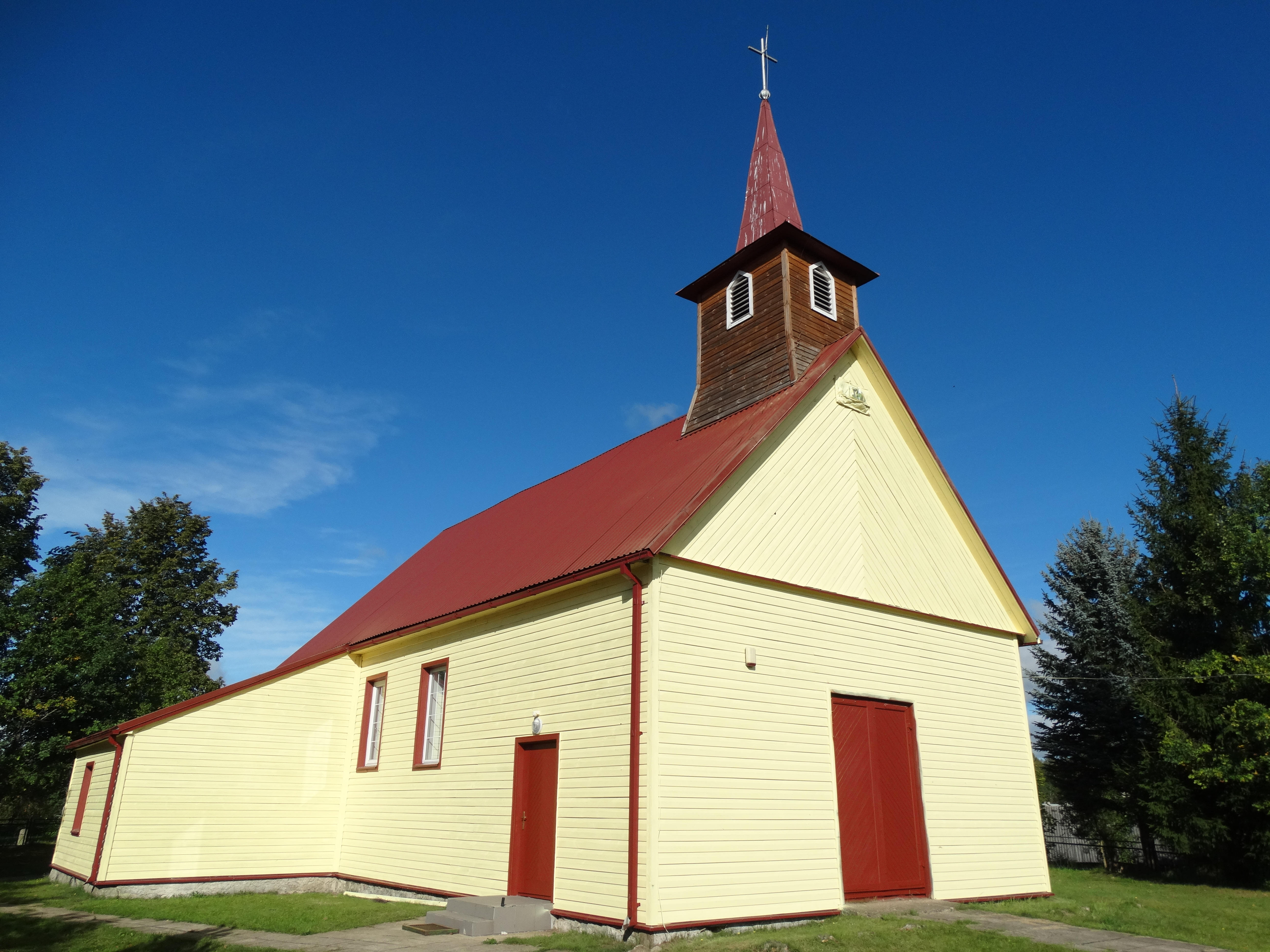 Church of the Sacred Heart of Jesus in Turmantas, Zarasai District, Lithuania